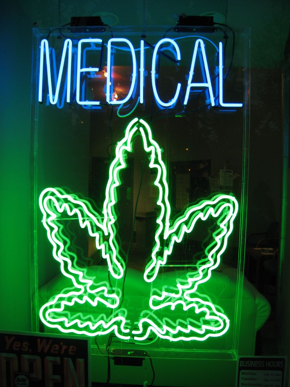 Photo featured here